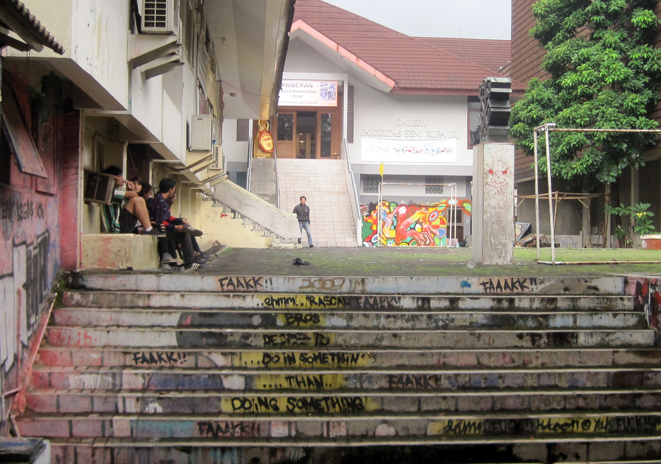 The grounds of the Art Institute of Indonesia (IKJ). The place is so beatnik, so bohemian.